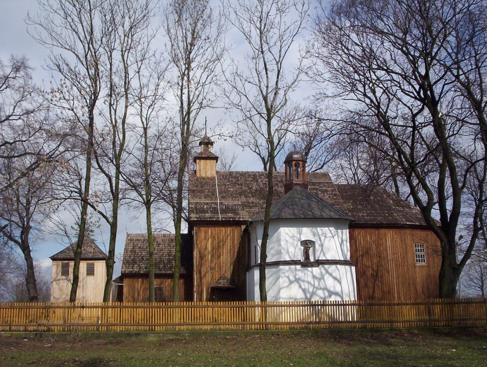 Church in Izdebno Kościelne, Poland.